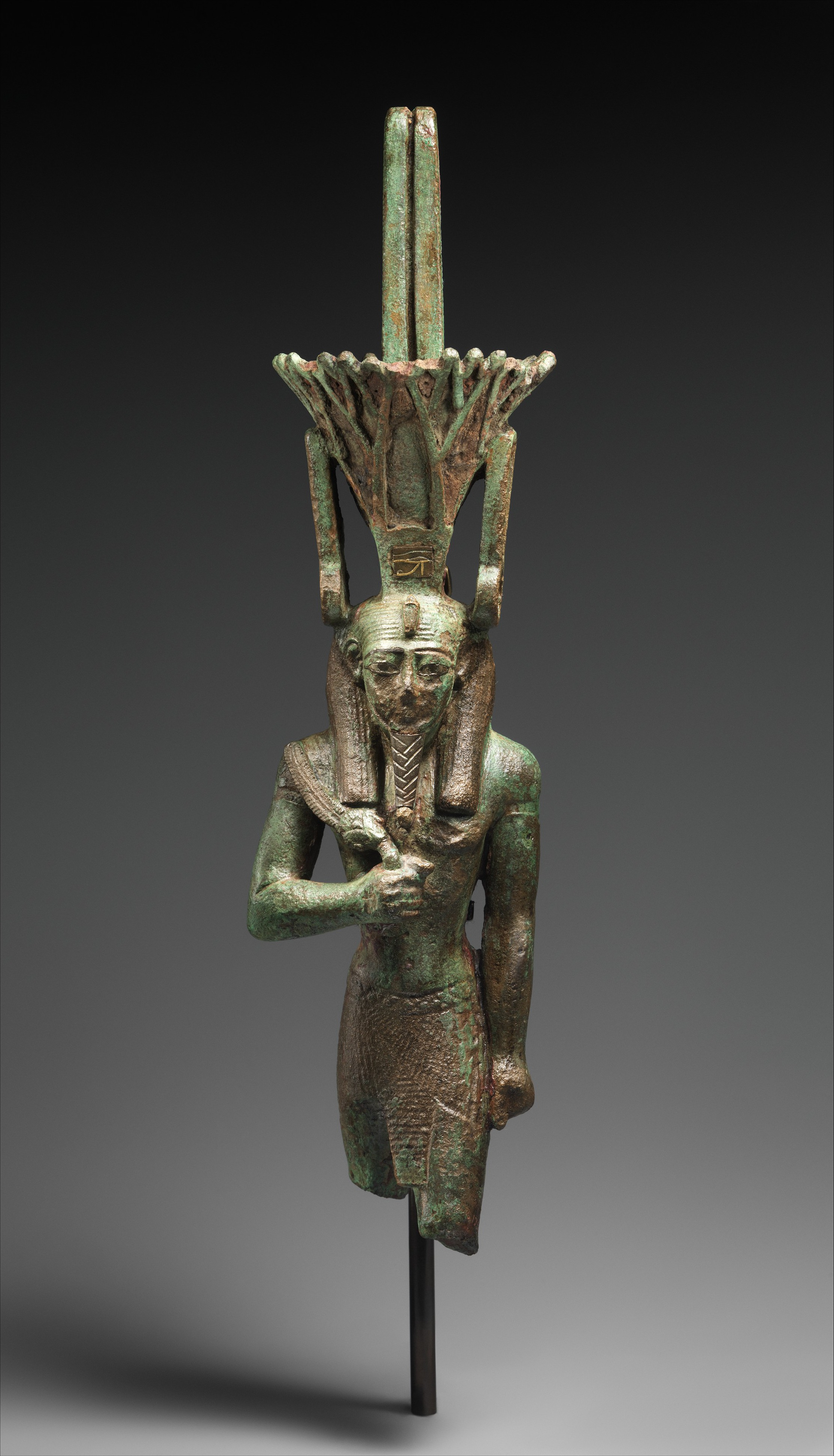 Statue, Nefertum